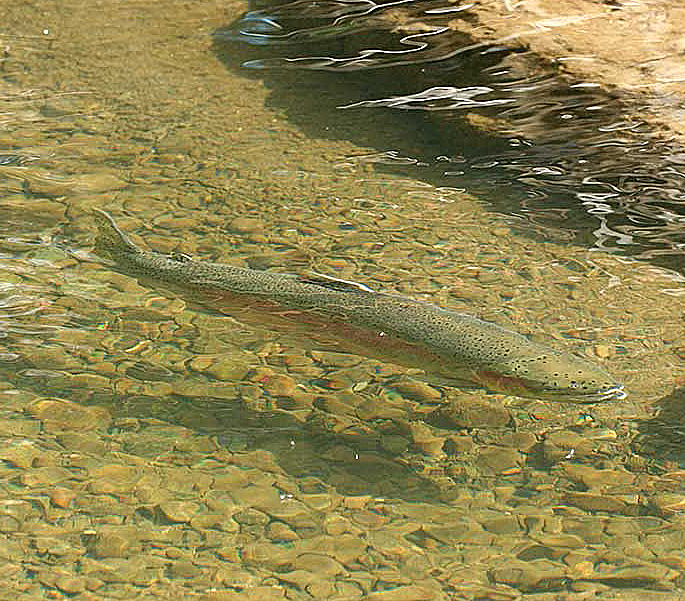 Steelhead trout in Corte Madera Creek, Marin County, CA